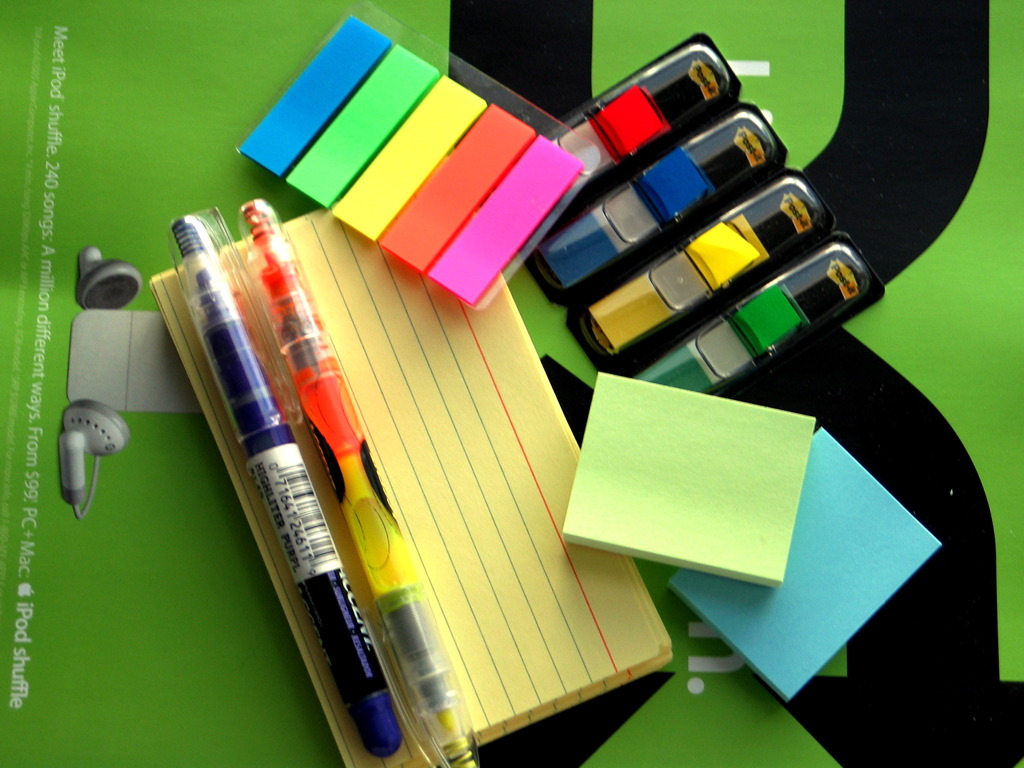 Various office equipmentMy toolkit for reading